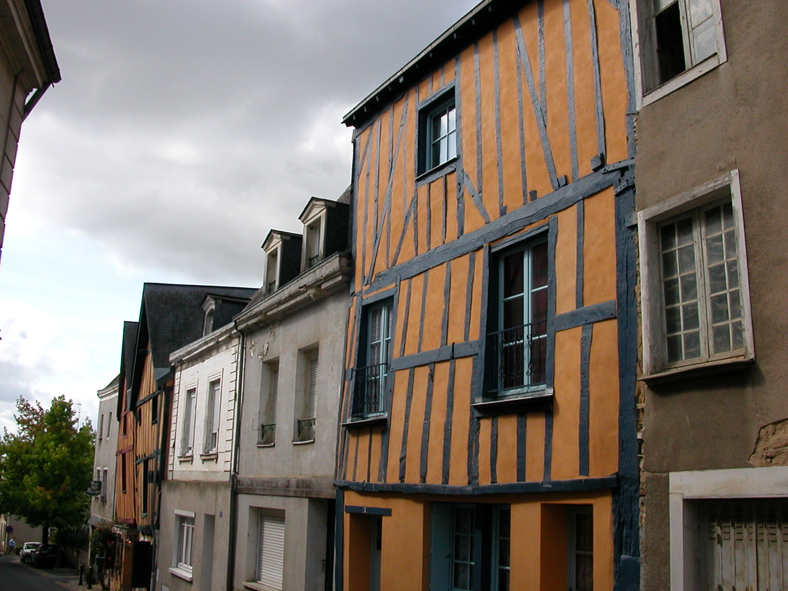 Timber frame houses, rue d'Olivet in Château-Gontier